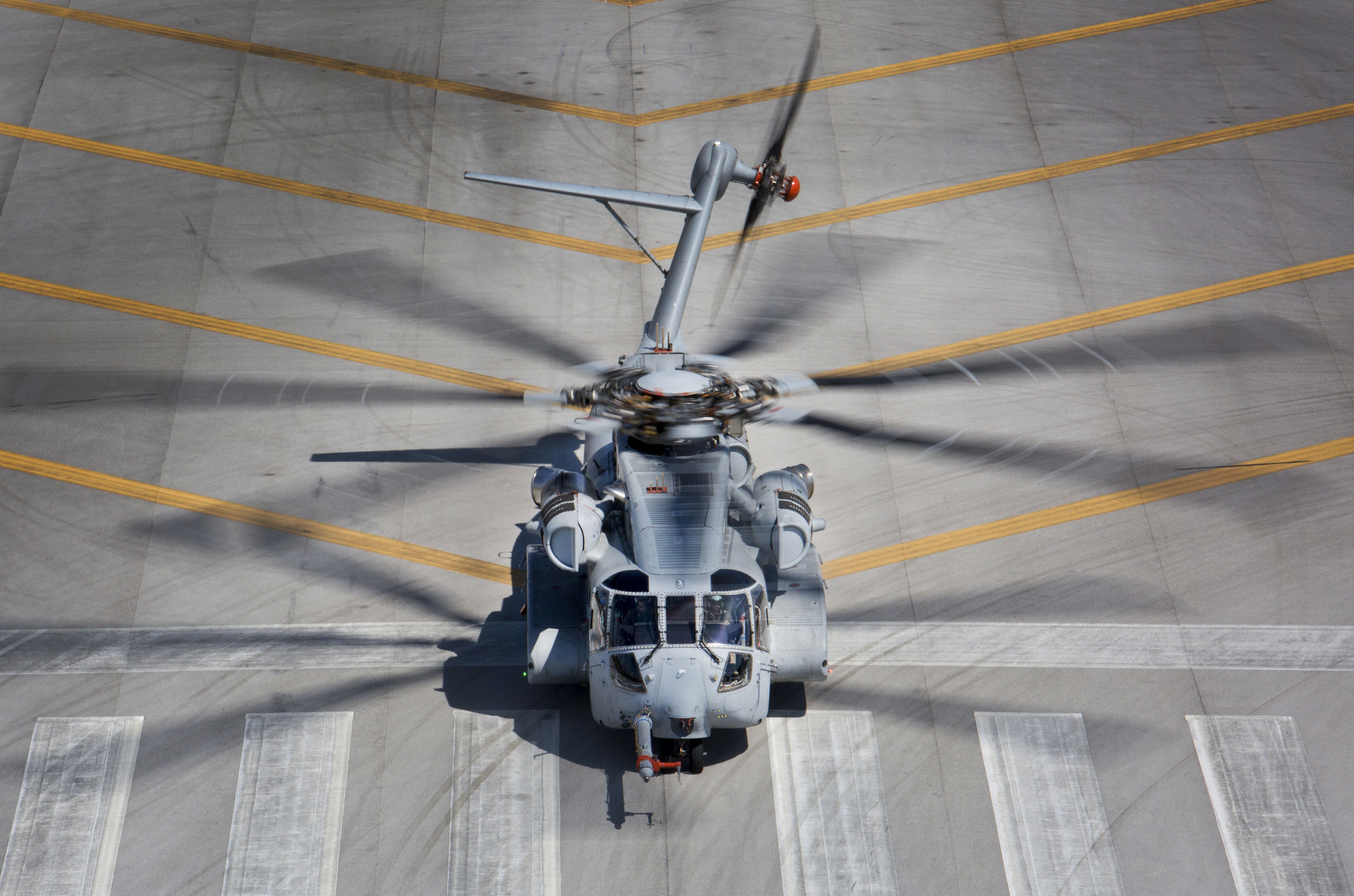 A Sikorsky CH-53K King Stallion lands after a test flight in West Palm Beach, Florida (USA), on 22 March 2017. Lockheed Martin announced the CH-53K King Stallion passed its Defense Acquisition Board assessment that approved for the aircraft to begin low-rate initial production on 4 April 2017. The CH-53K will be considered the most powerful helicopter in the Department of Defense and is scheduled to completely replace the CH-53E Super Stallion by 2030.